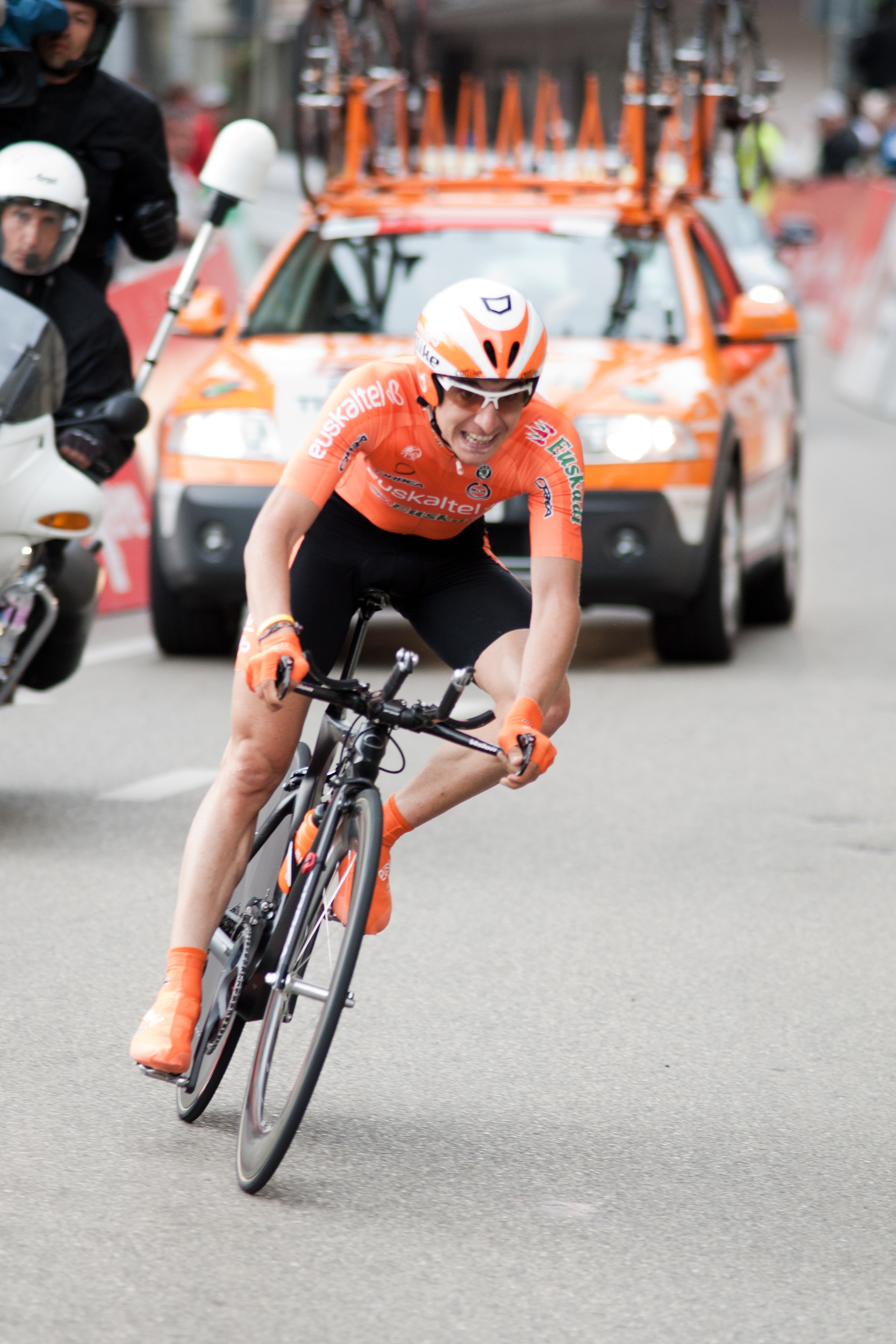 Igor Anton during the 3rd stage of the Tour de Romandie 2010.